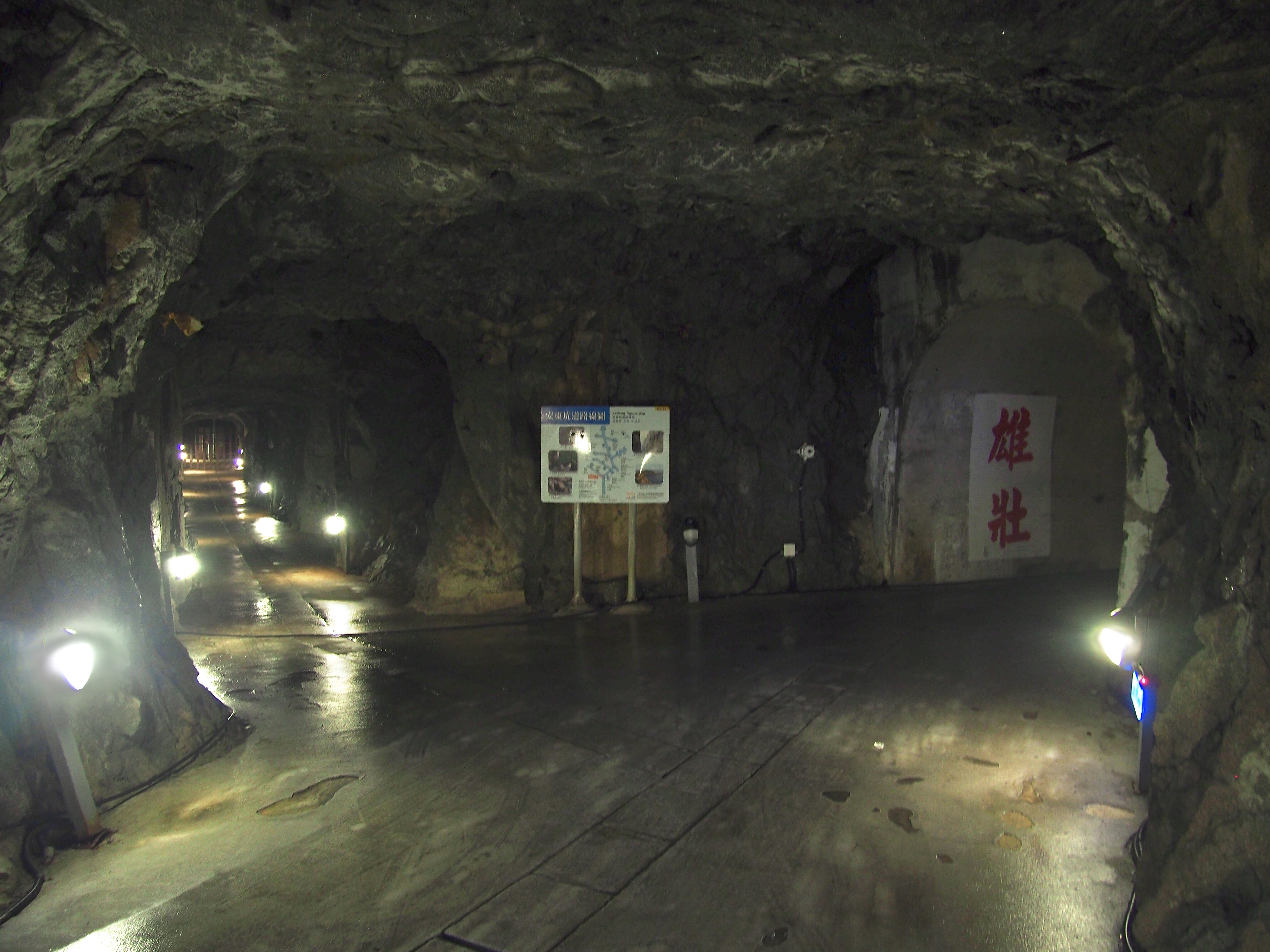 Andong Tunnel - 2016.04